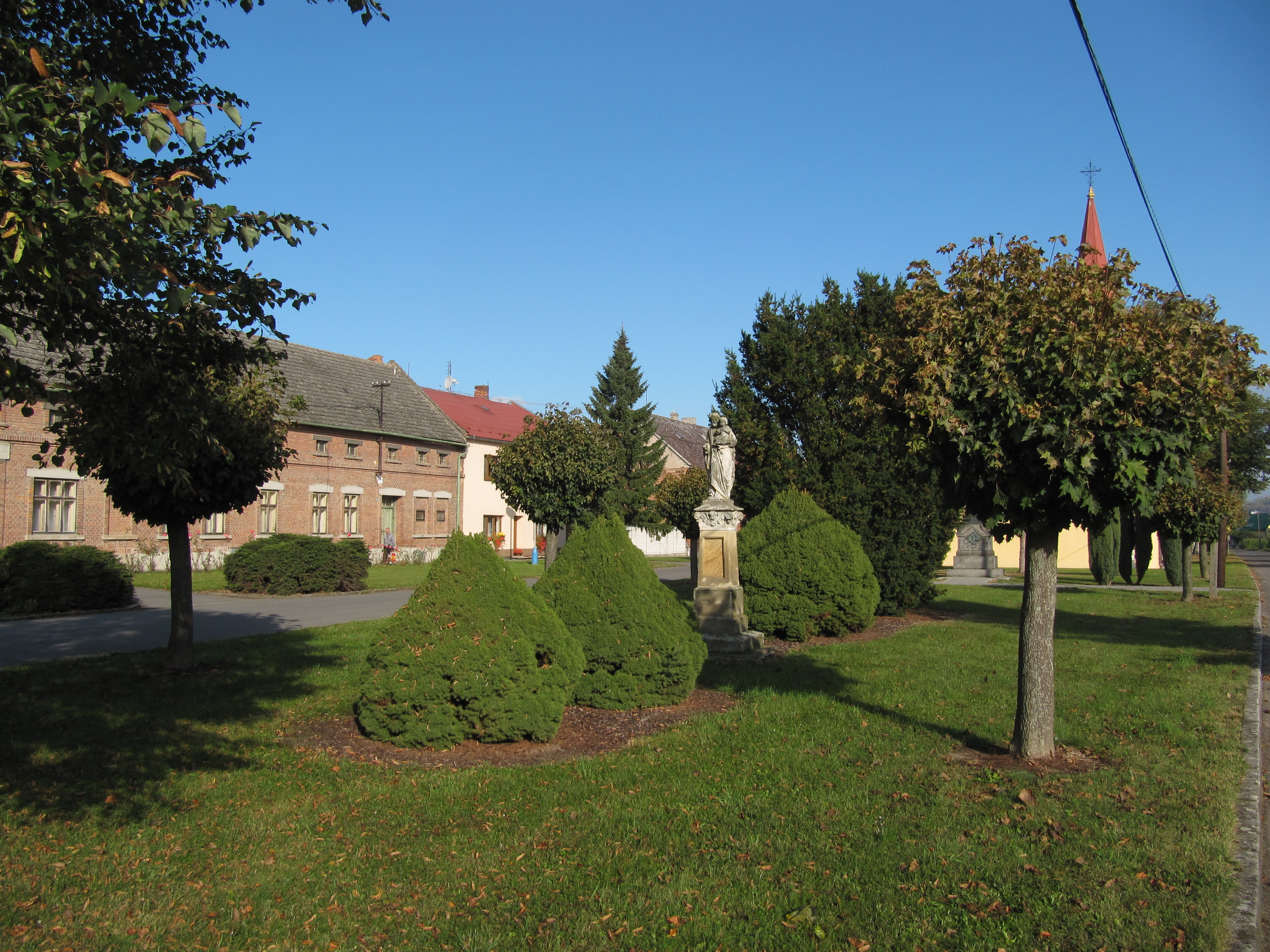 Třebětice in Kroměříž District, Czech Republic. Landscaped square with a statue of St. Joseph and St. Wendelin-church from the years 1791-1794.